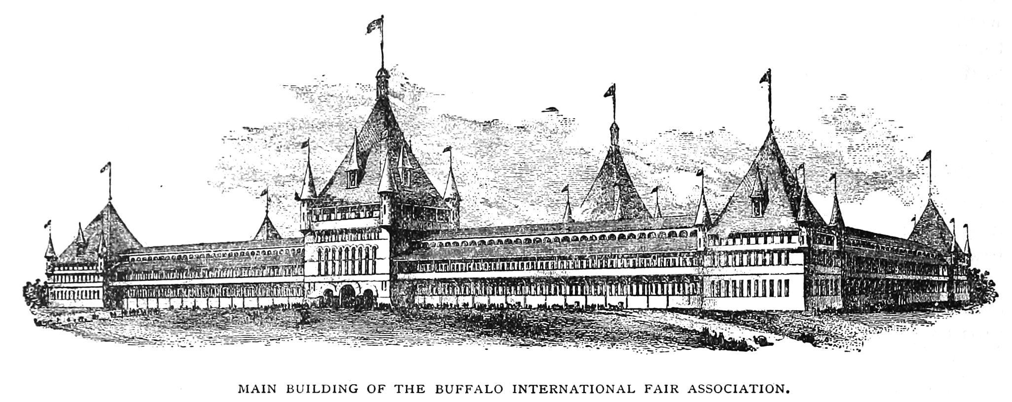 Main building of the Buffalo International Fair Association, from an engraving published in 1888